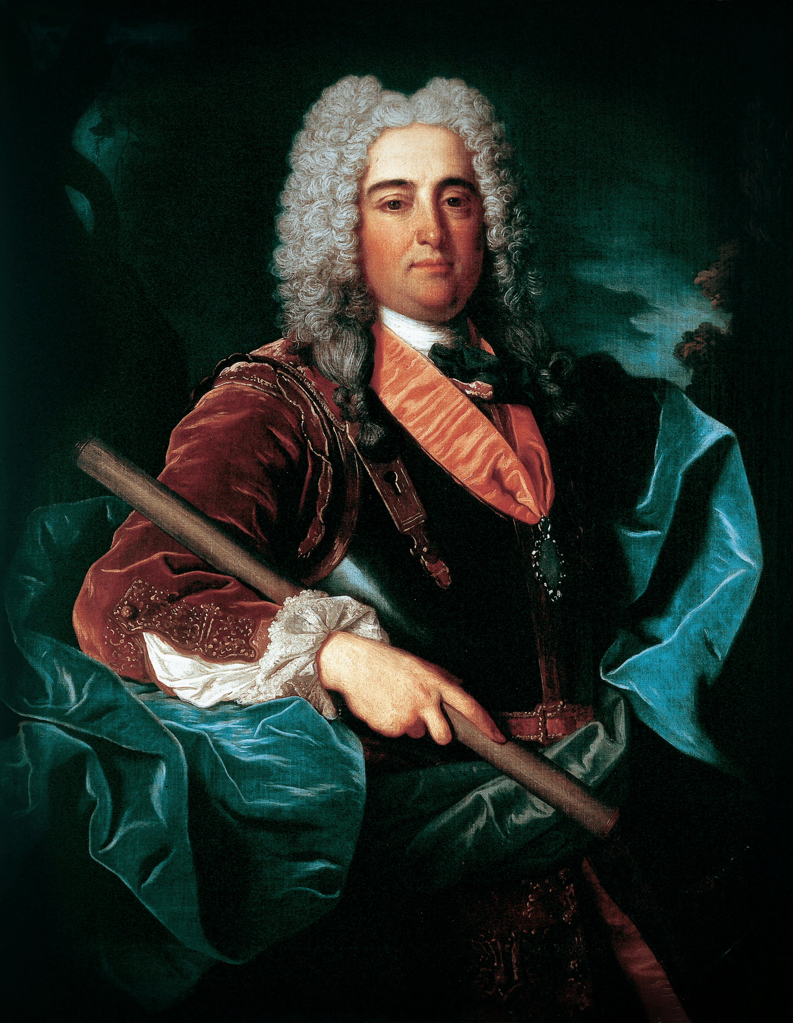 Retrato do Infante D. Francisco do Bragança, Duque de Beja